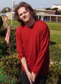 Merton at a gold outing in 2008 (cropped from larger photo with others).